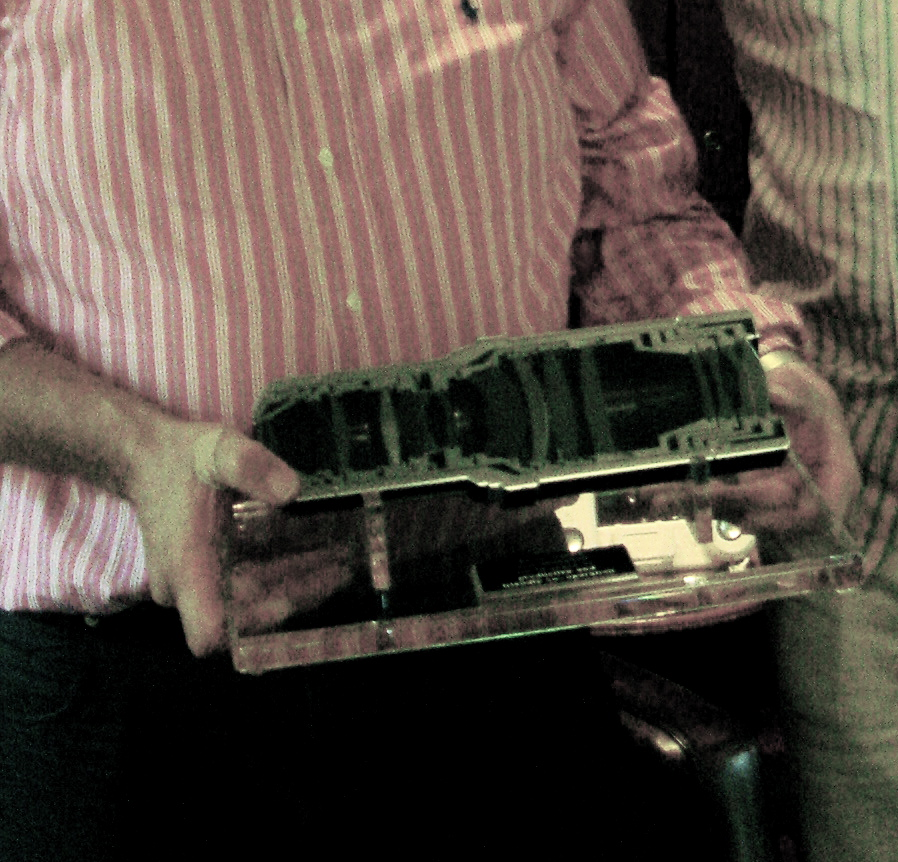 This is Ton Willekens and Patrick de Laive. Ton is holding a lens from ASML which was once used to manufacture microchips. The lens used to cost 500.000 euros. Todays lenses are 2 meters high and can cost up to 5 million.